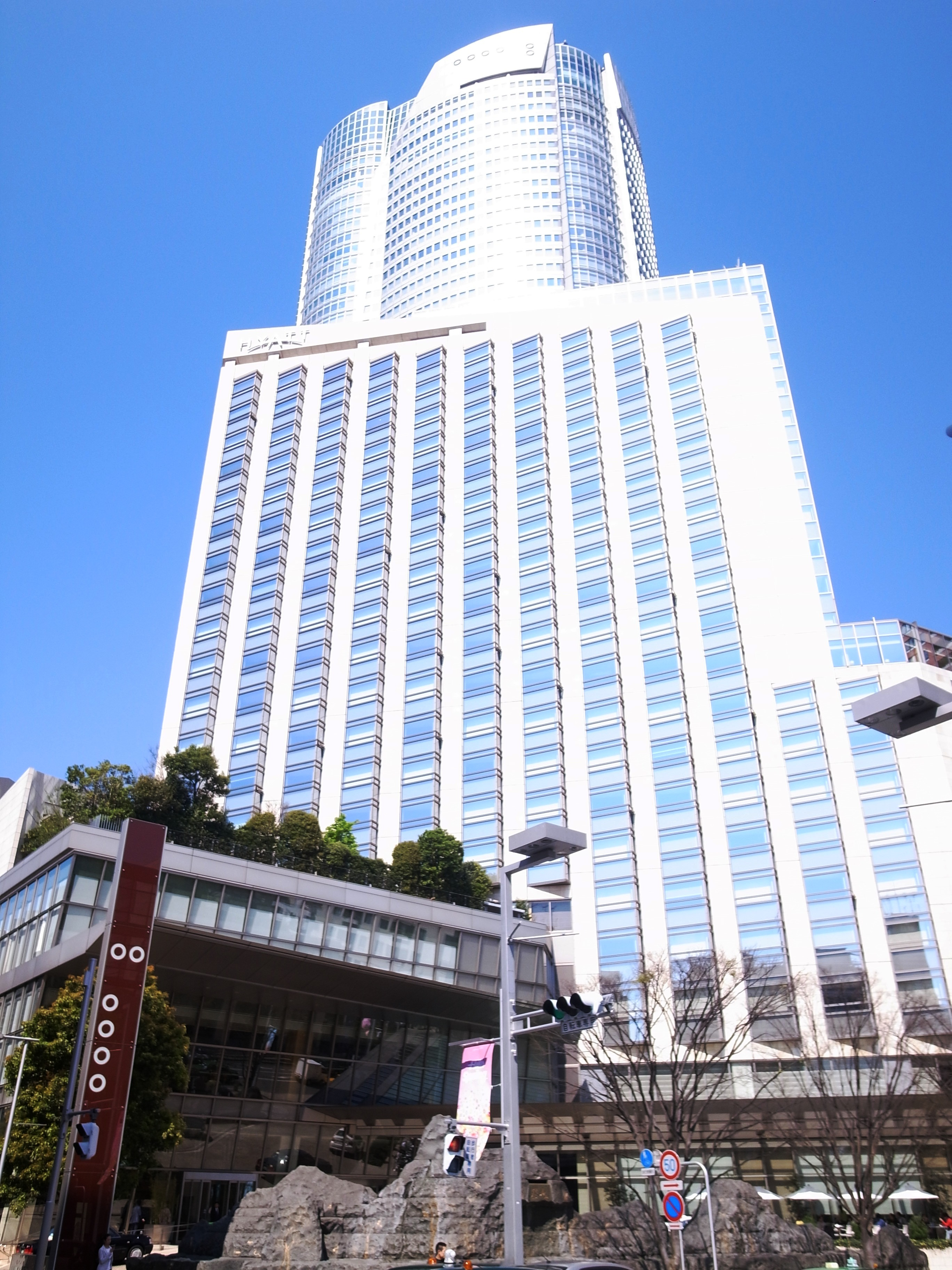 Grand Hyatt Tokyo